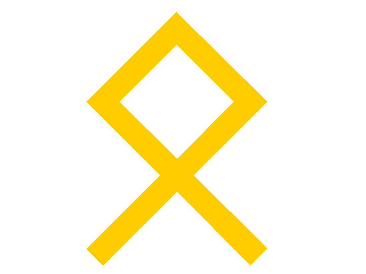 Mark of German 14 Panzer Division (version of Odal rune)